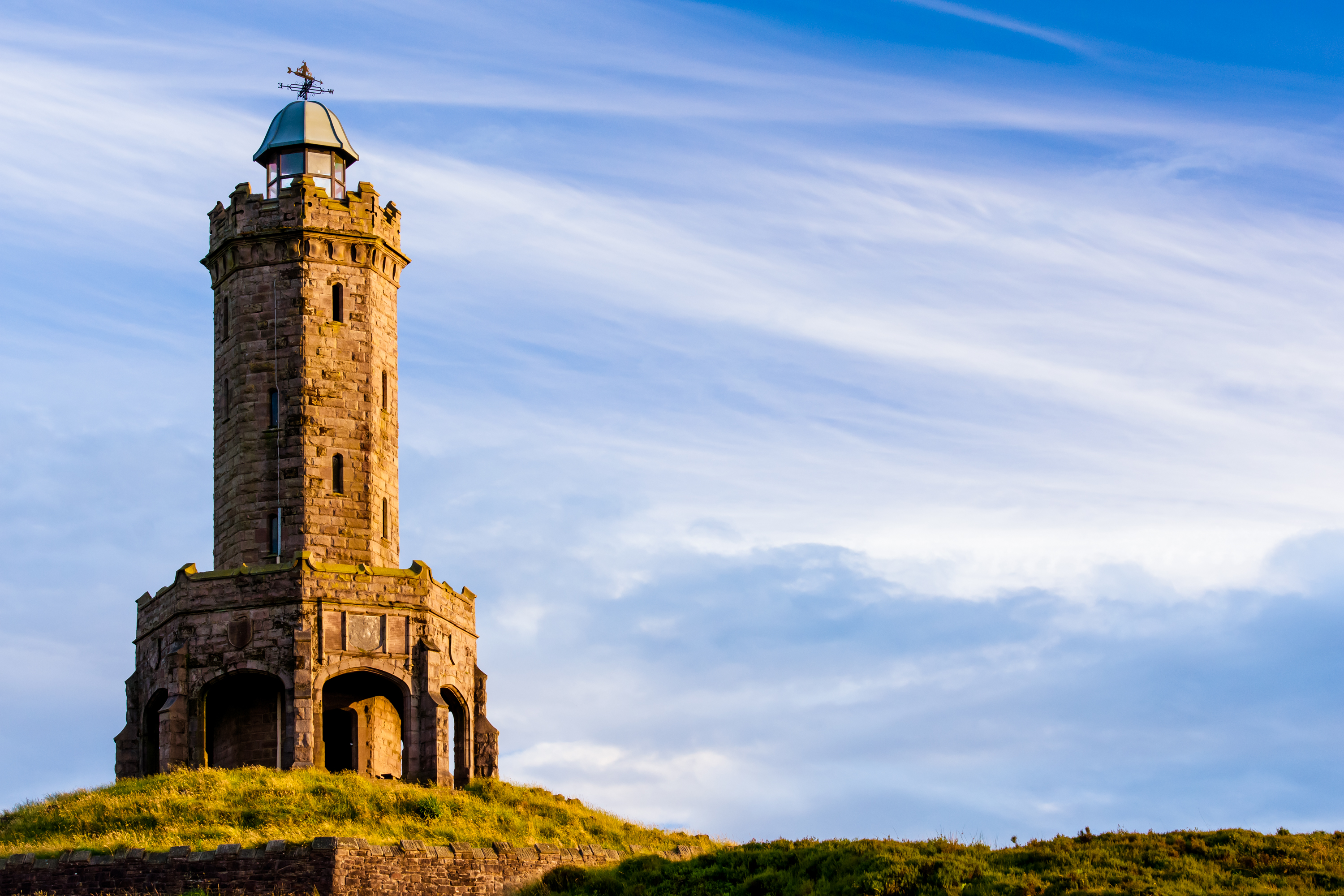 Darwen Jubilee Tower Wikidata has entry Q26328049 with data related to this item.